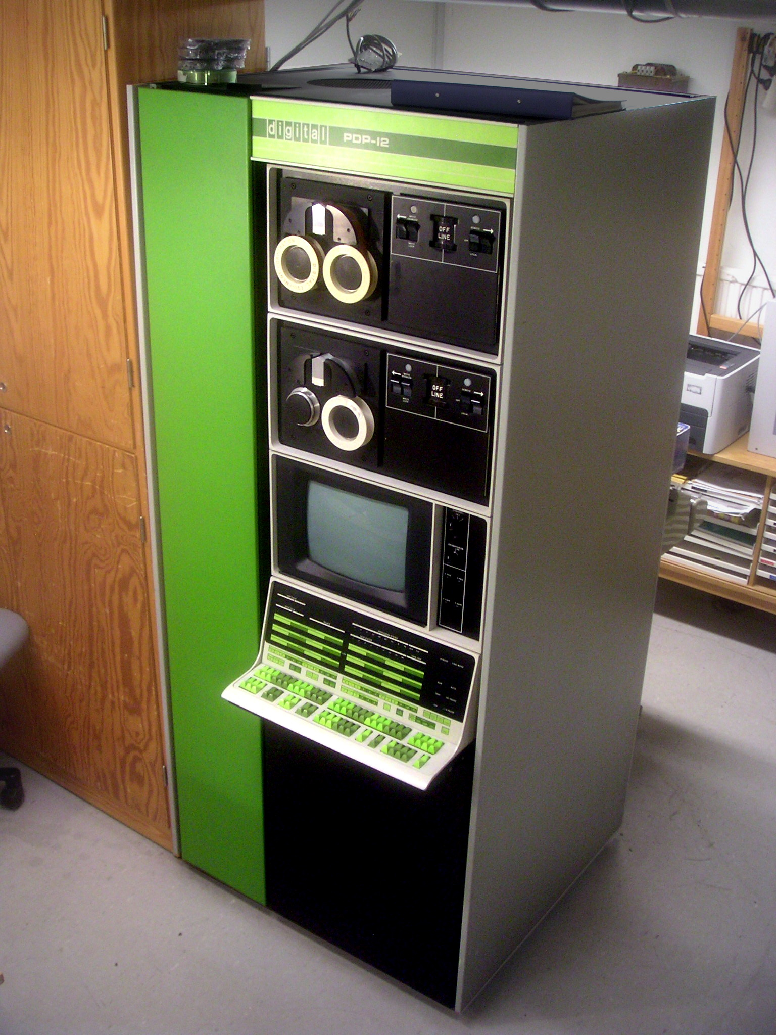 PDP-12 belonging to the Update Computer Club and on display at Uppsala University which is in Uppsala, Sweden.